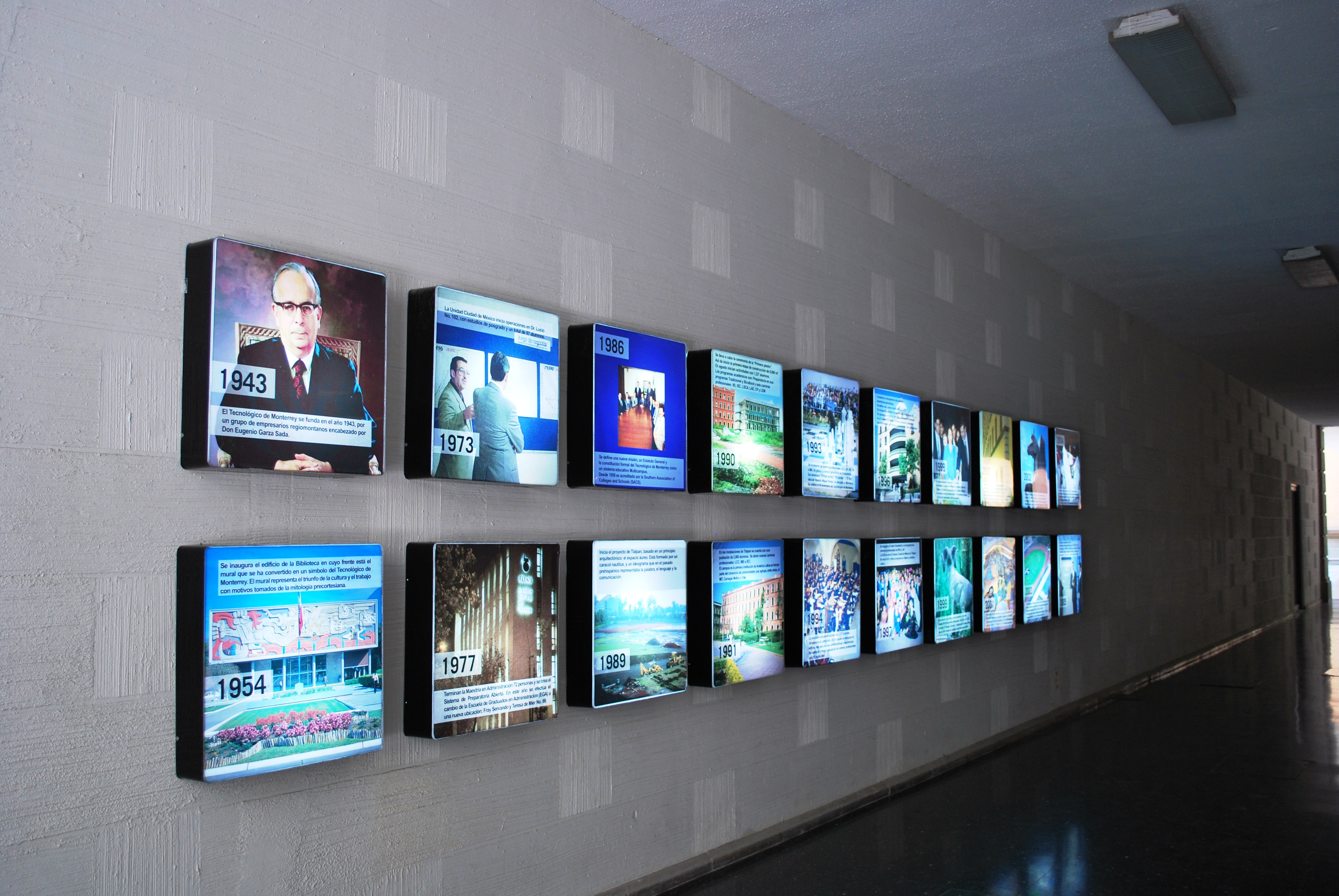 Ground floor of Aulas 3 with a display showing the history of the campus through the years. Located at ITESM-CCM.